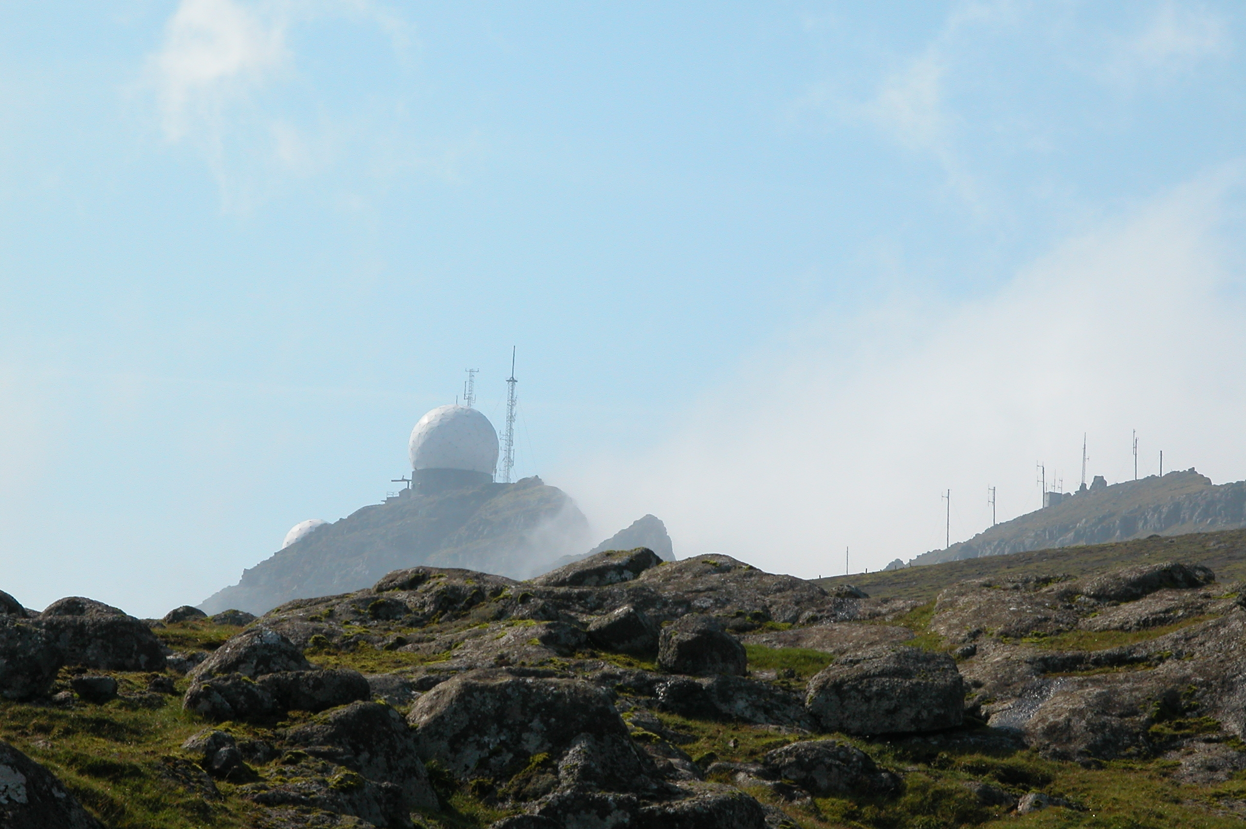 Radar base of the NATO at Sornfelli on Streymoy, Faroe Islands. View on Koltur